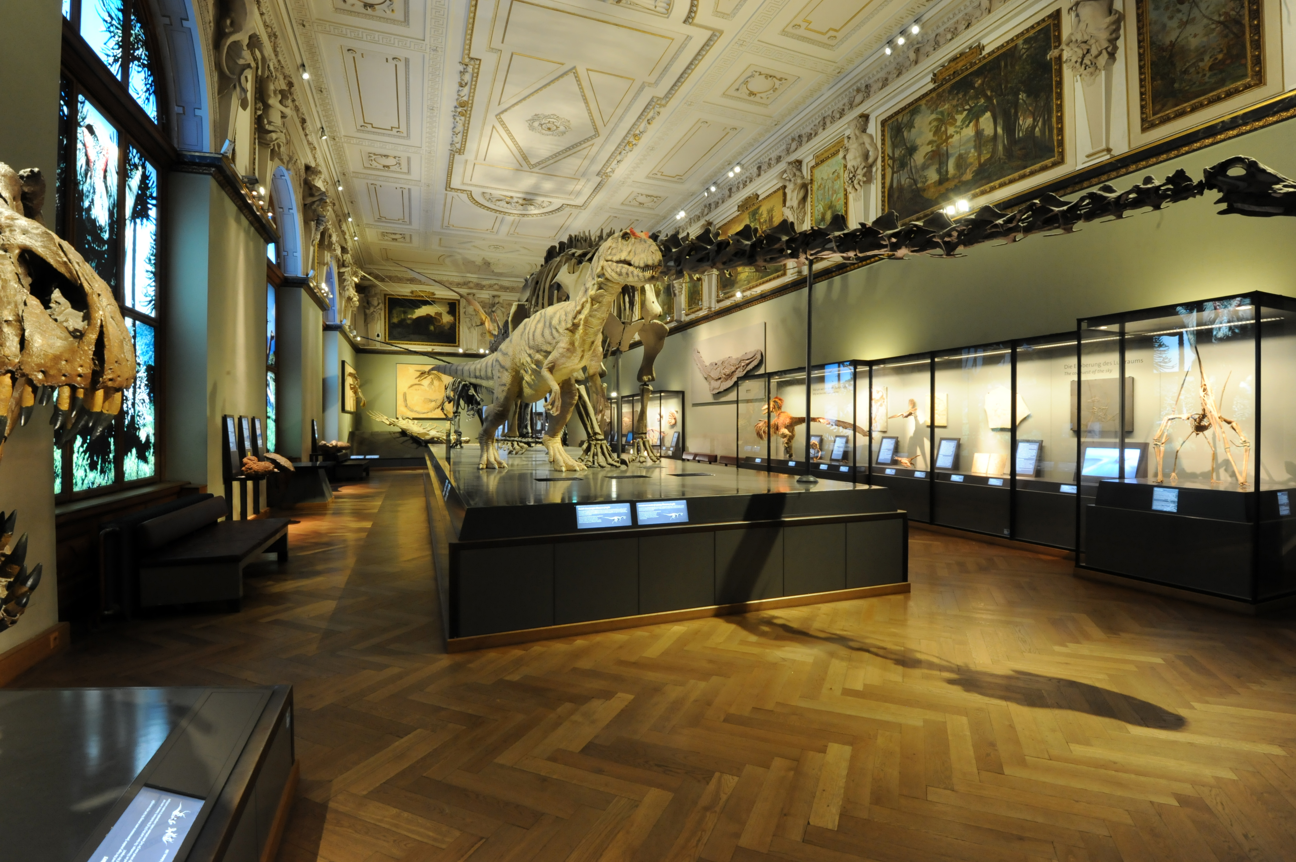 Dinosaur hall, hall 10 at NHM Vienna